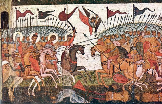 Battle between Novgorod and Suzdal in 1170, fragment of an icon.